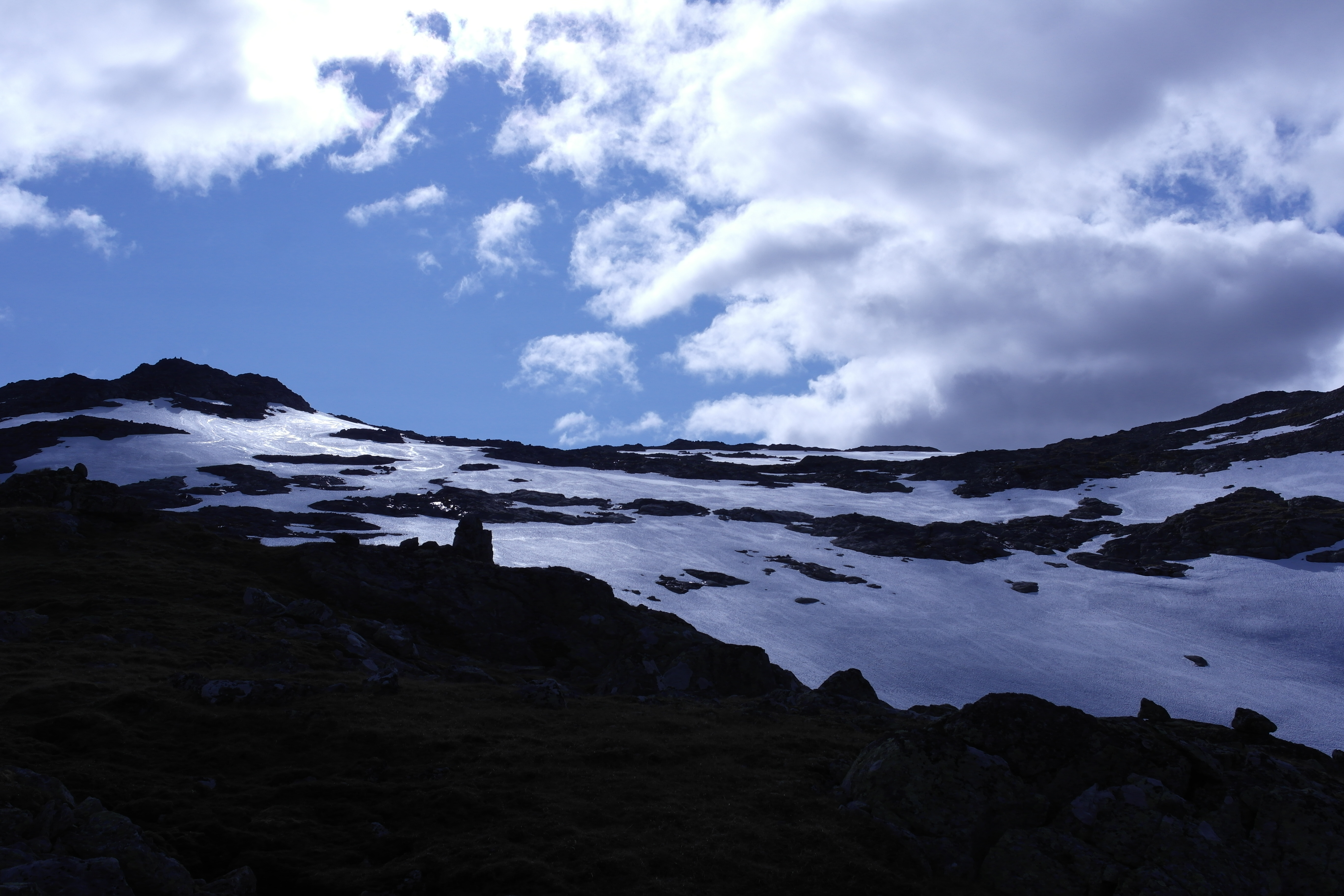 Just below Veslebotn far north in Reineskarvet, looking back towards peak 1672